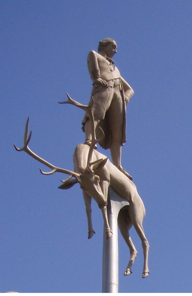 Peter Lenk, Hölderlin im Kreisverkehr